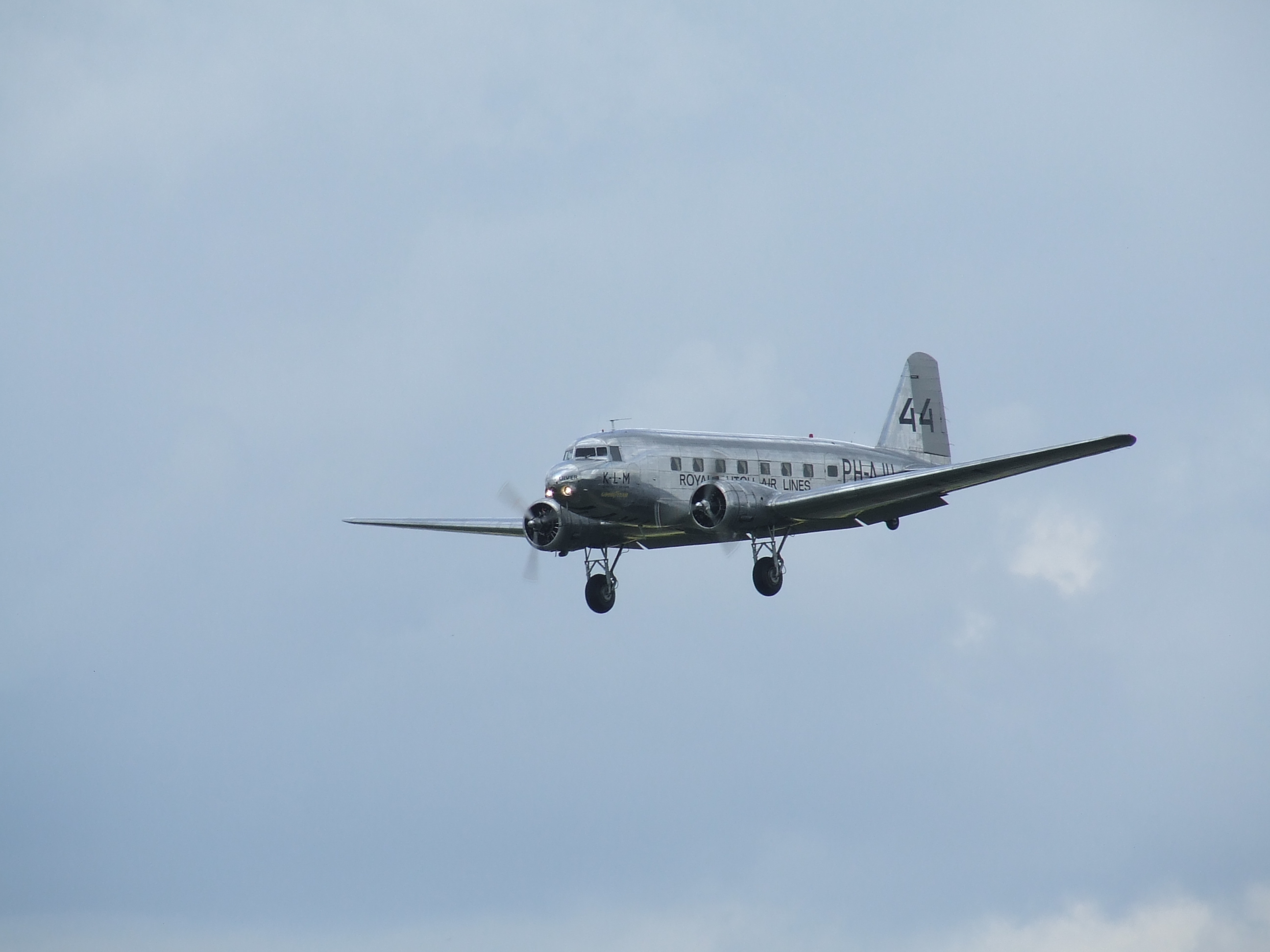 Douglas DC-2 "De Uiver" of the Aviodrome Lelystad in flight at Dakota Fly In 2008